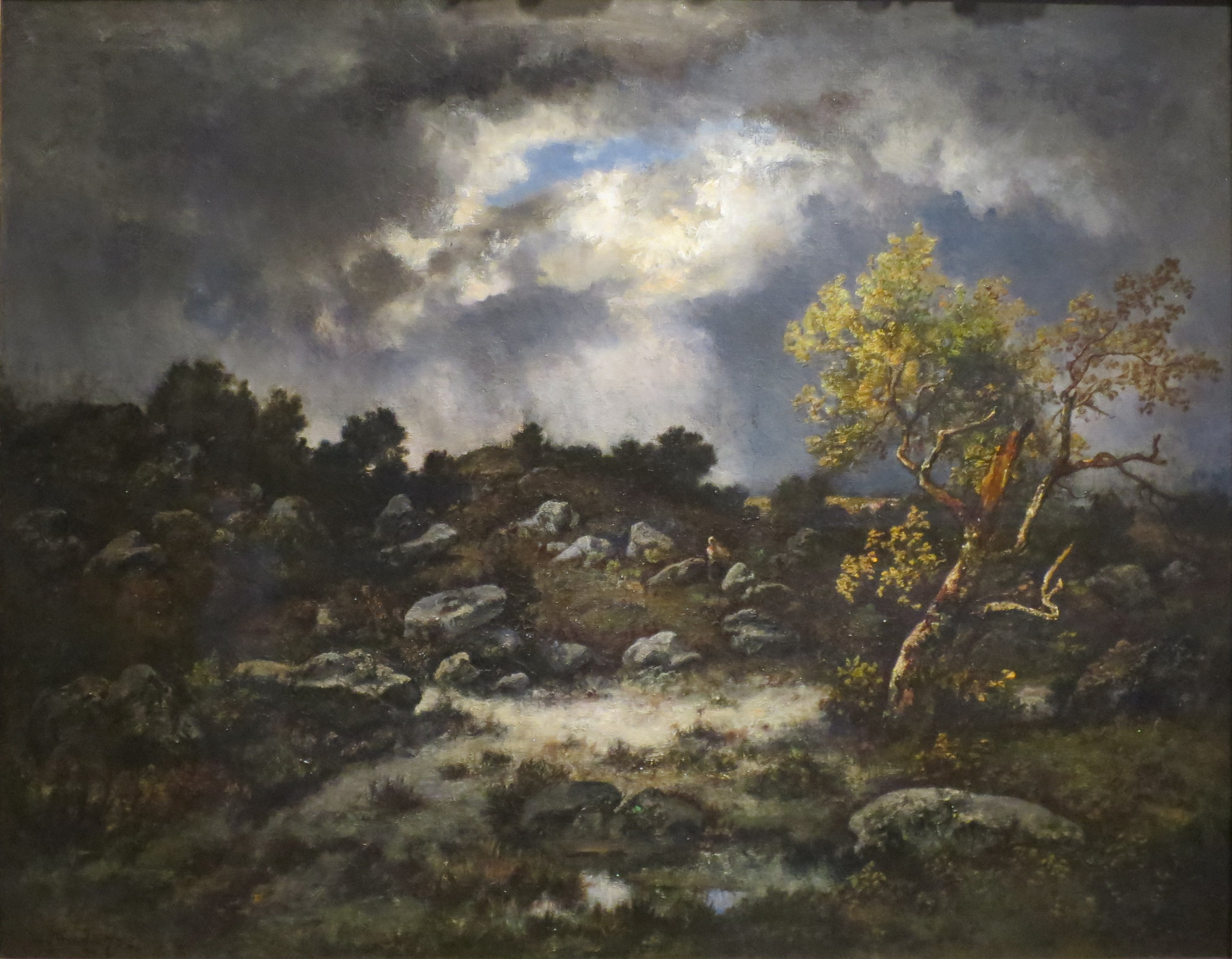 The Approaching Storm by Narcisse-Virgile Diaz de la Peña, 1870, oil on canvas, Norton Simon Museum